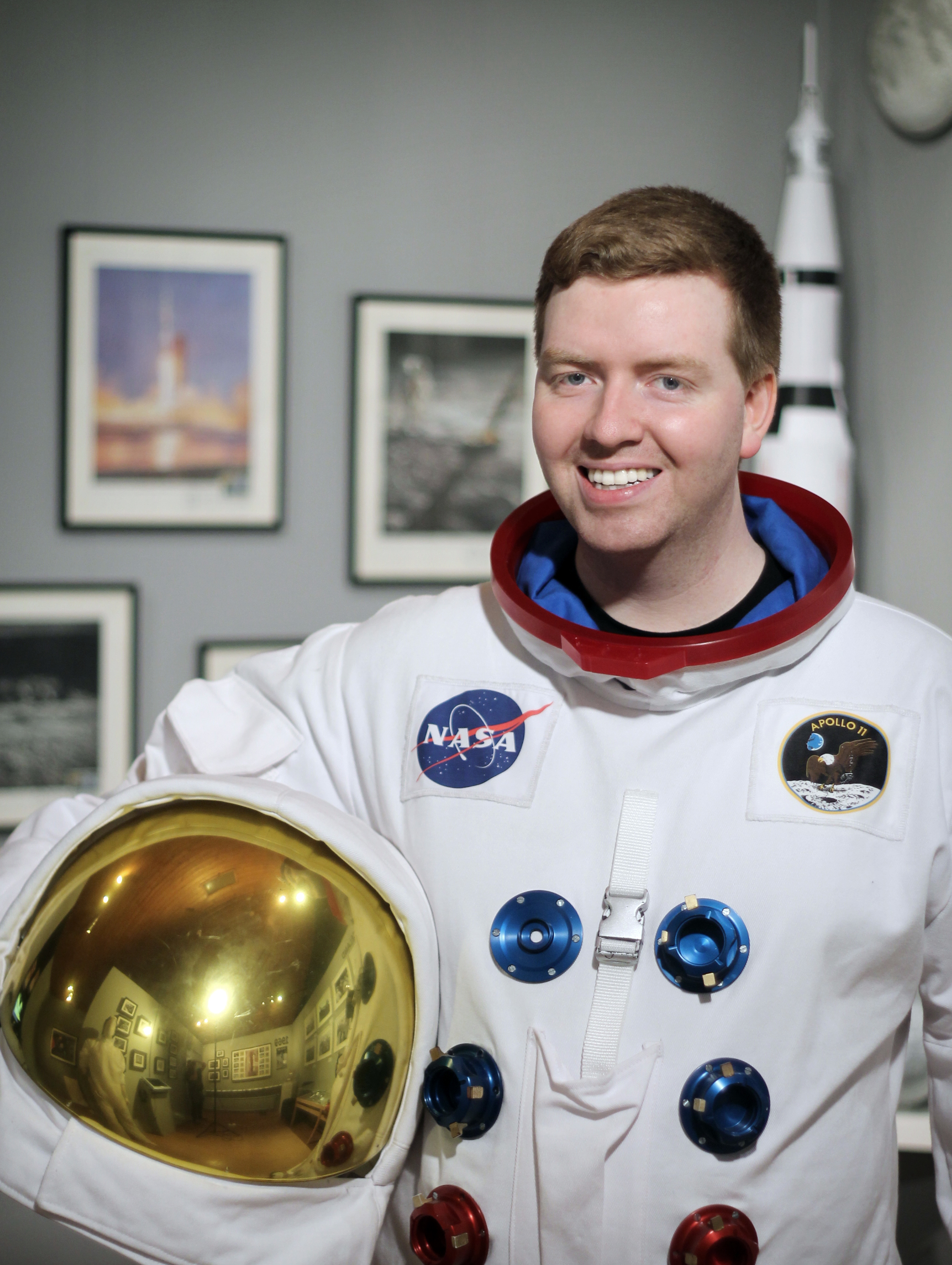 Örlygur Hnefill Örlygsson, founder of The Exploration Museum in a replica of the A7L Apollo & Skylab spacesuit at the museum in Iceland.